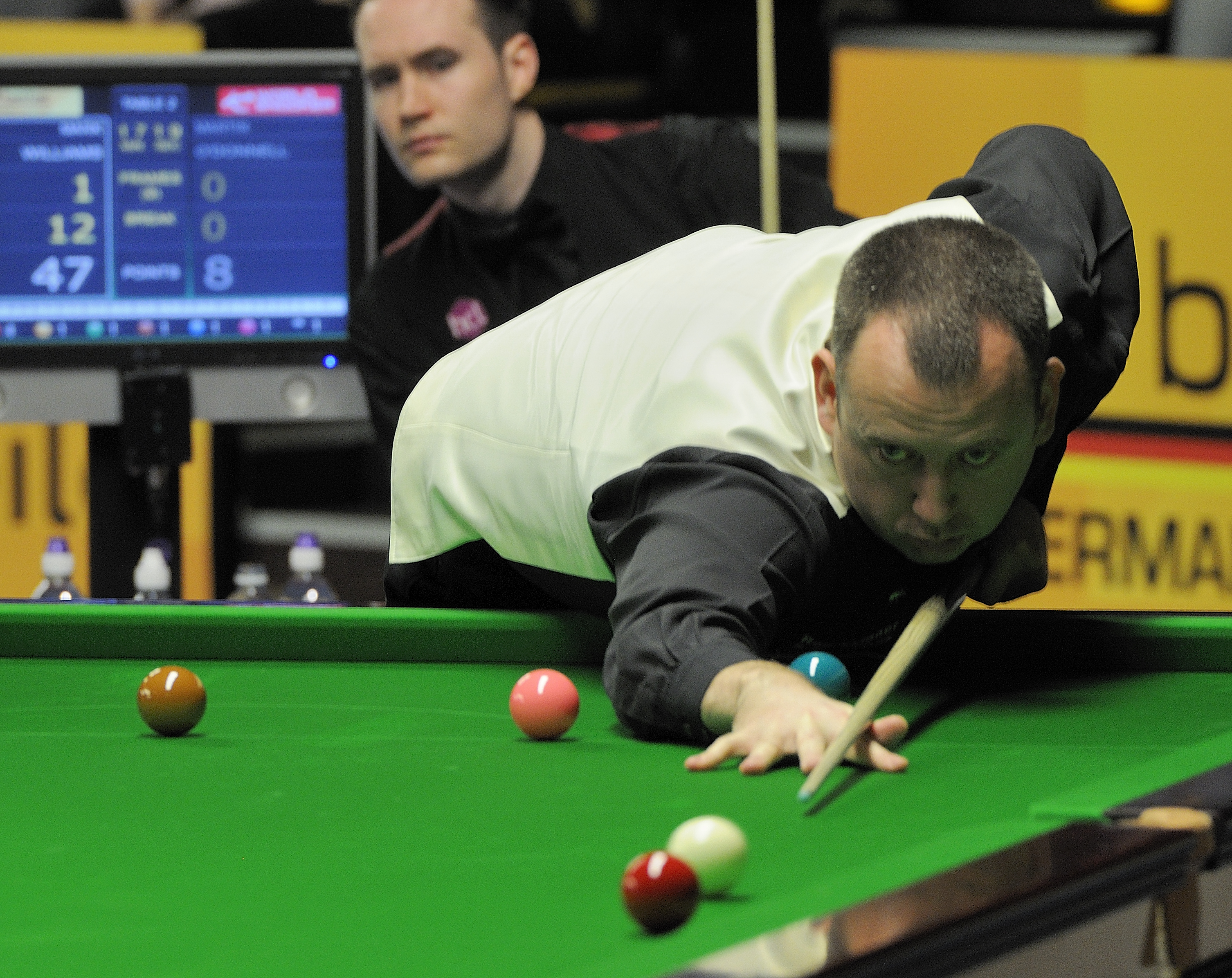 Picture taken in Berlin during the Snooker German Masters in 2013. Mark Williams.